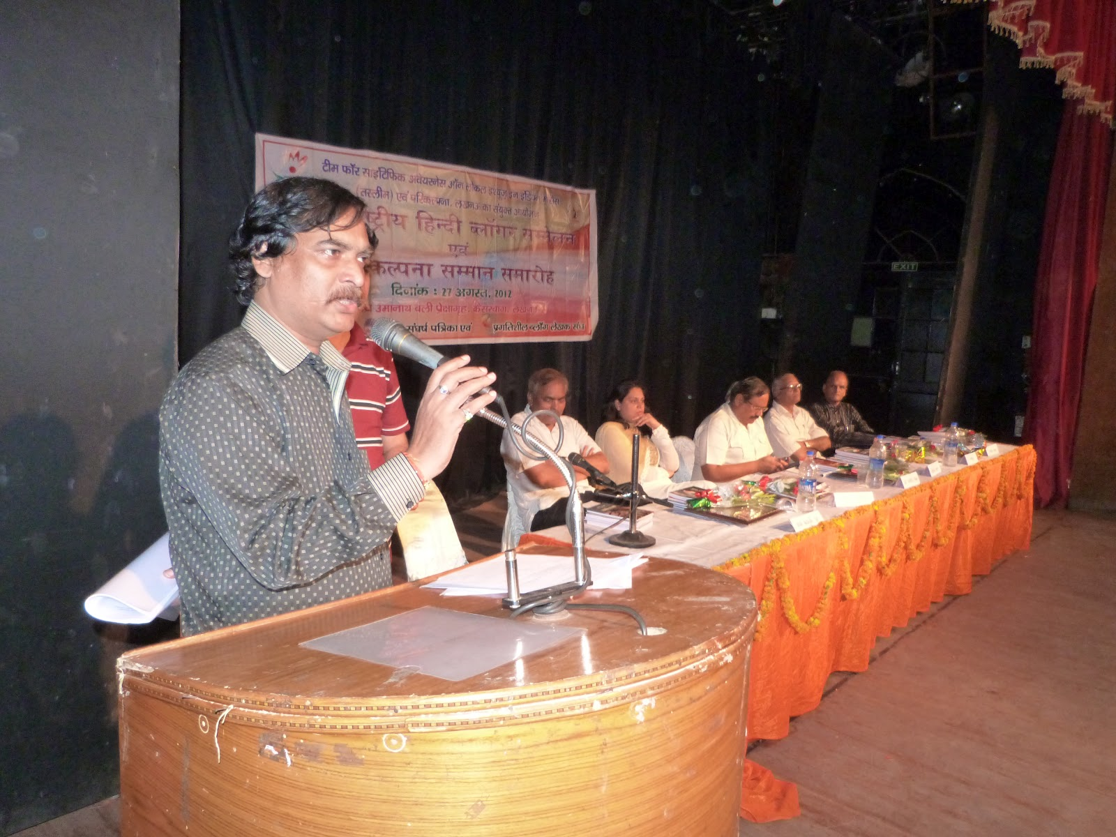 Indian fiction writer Ravindra Prabhat address in International Bloggers Conference in Lucknow (Augast 27, 2012)